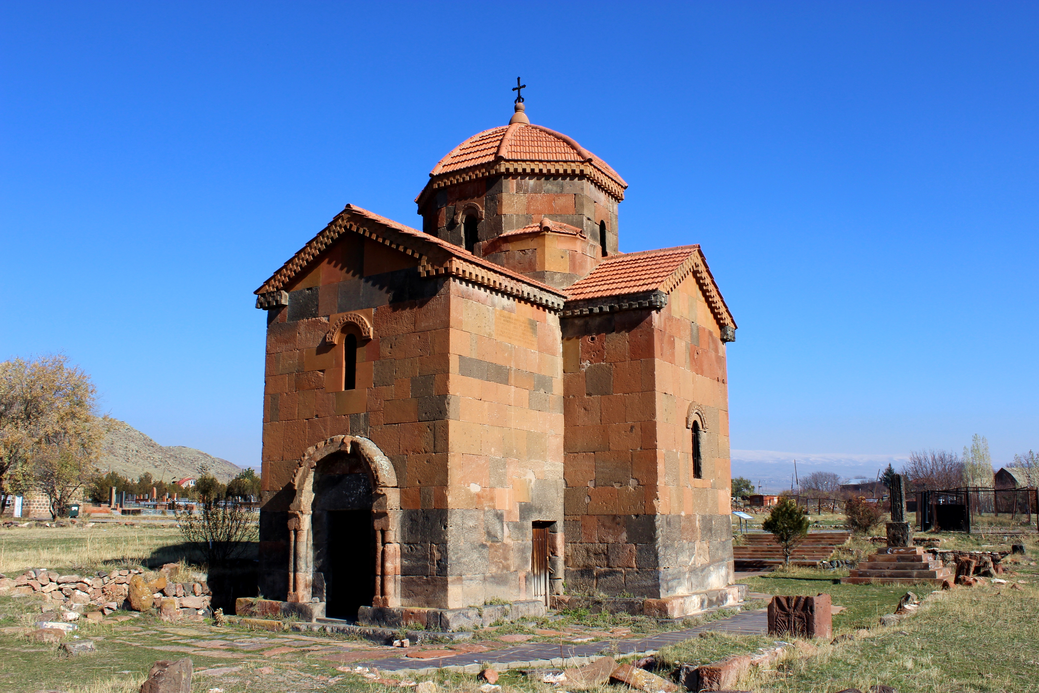 Kamsarakan S. Astvatsatsin Church located in the Talin Cemetery, near the Cathedral of Talin, Talin, Aragatsotn Province, Armenia.